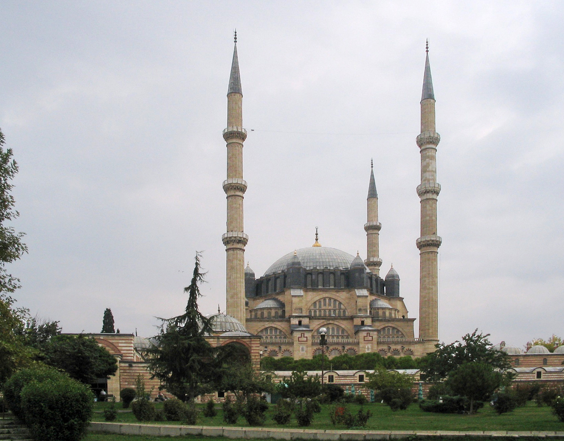 Selimiye Mosque, Edirne, Turkey